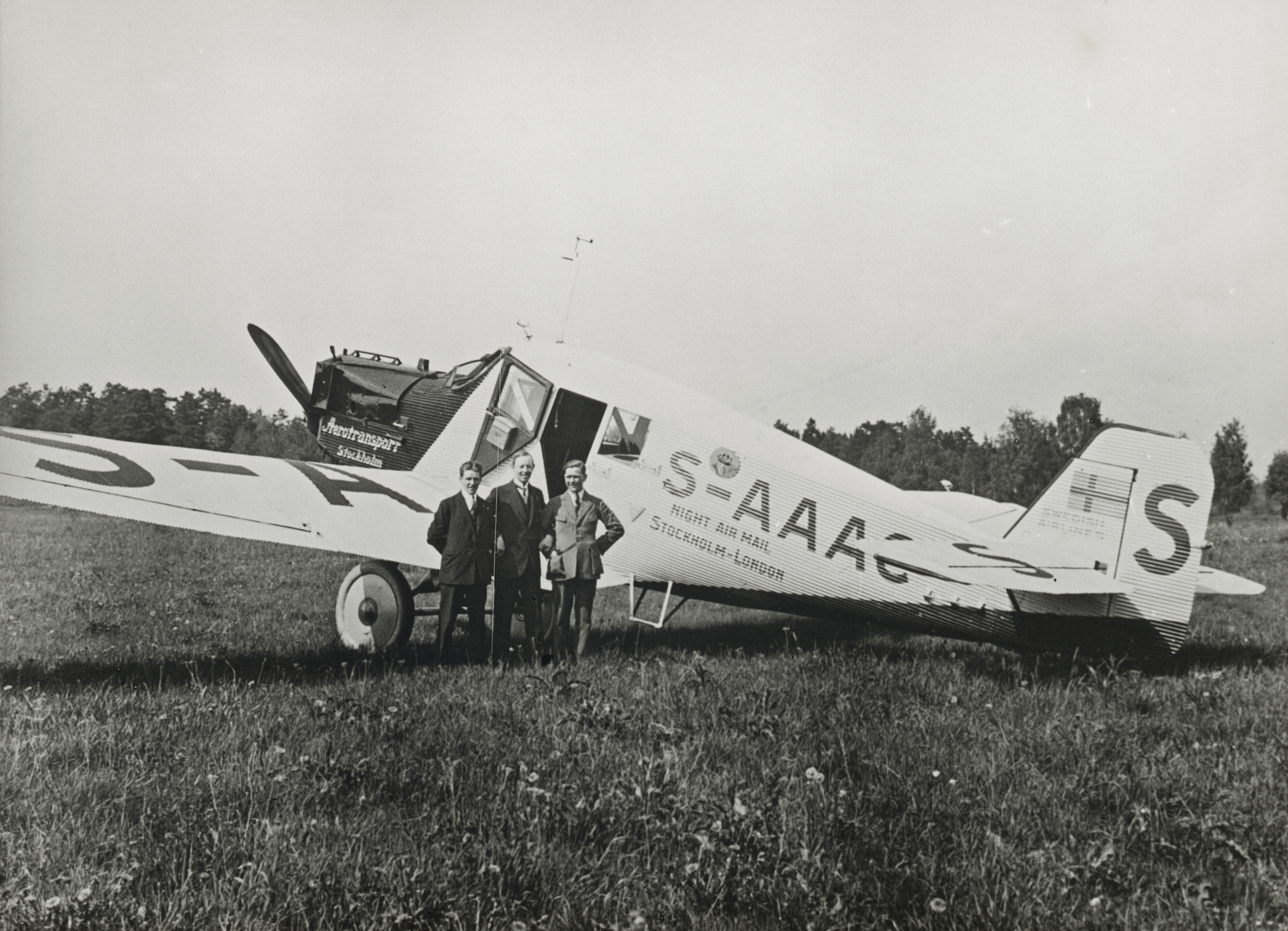 Cargo. ABA - AB Aerotransport begin to fly June 18th 1928, night air mail flights between Stockholm - London. Junkers F13 Dalsland S-AAAC, Today in Stockholm Tekniska Museet.